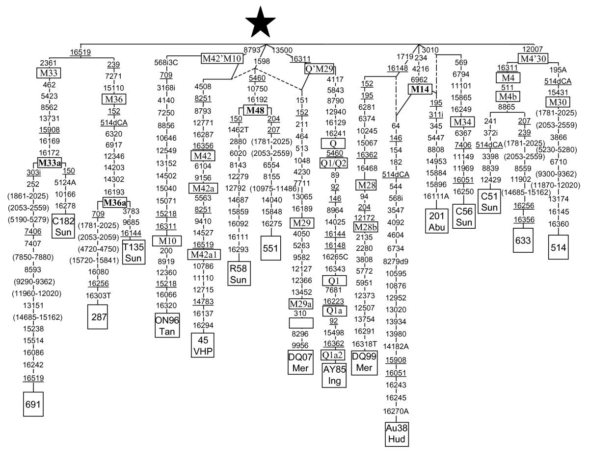 1Phylogenetic tree based on complete M sequences. Numbers along links refer to nucleotide positions. A, C, T indicate transversions; "d" deletions and "i" insertions. Recurrent mutations are underlined. Regions not analyzed are in parenthesis. Star differs from rCRS at positions: 73, 263, 303i, 311i, 489, 750, 1438, 2706, 4769, 7028, 8701, 8860, 9540, 10398, 10873, 10400, 11719, 12705, 14766, 14783, 15043, 15301, 15326, 16223 and 16519. GenBank accession numbers of the subjects retrieved from the literature are: C182 Sun (AY922276), T135 Sun (AY922287), R58 Sun (AY922299), C56 Sun (AY922274), and C51 Sun (AY922261) from Sun et al.; ON96 Tan (AP008599) from Tanaka et al.; 45 VHP (DQ404445) from van Holst Pellekaan et al.; DQ07 Mer (DQ137407), DQ99 Mer (DQ137399) from Merriwether et al.; AY85 Ing (AY289085) from Ingman and Gyllensten; Au38 Hud (EF495222) from Hudjashov et al.; and 201 Abu (DQ904234) from Abu-Amero et al.